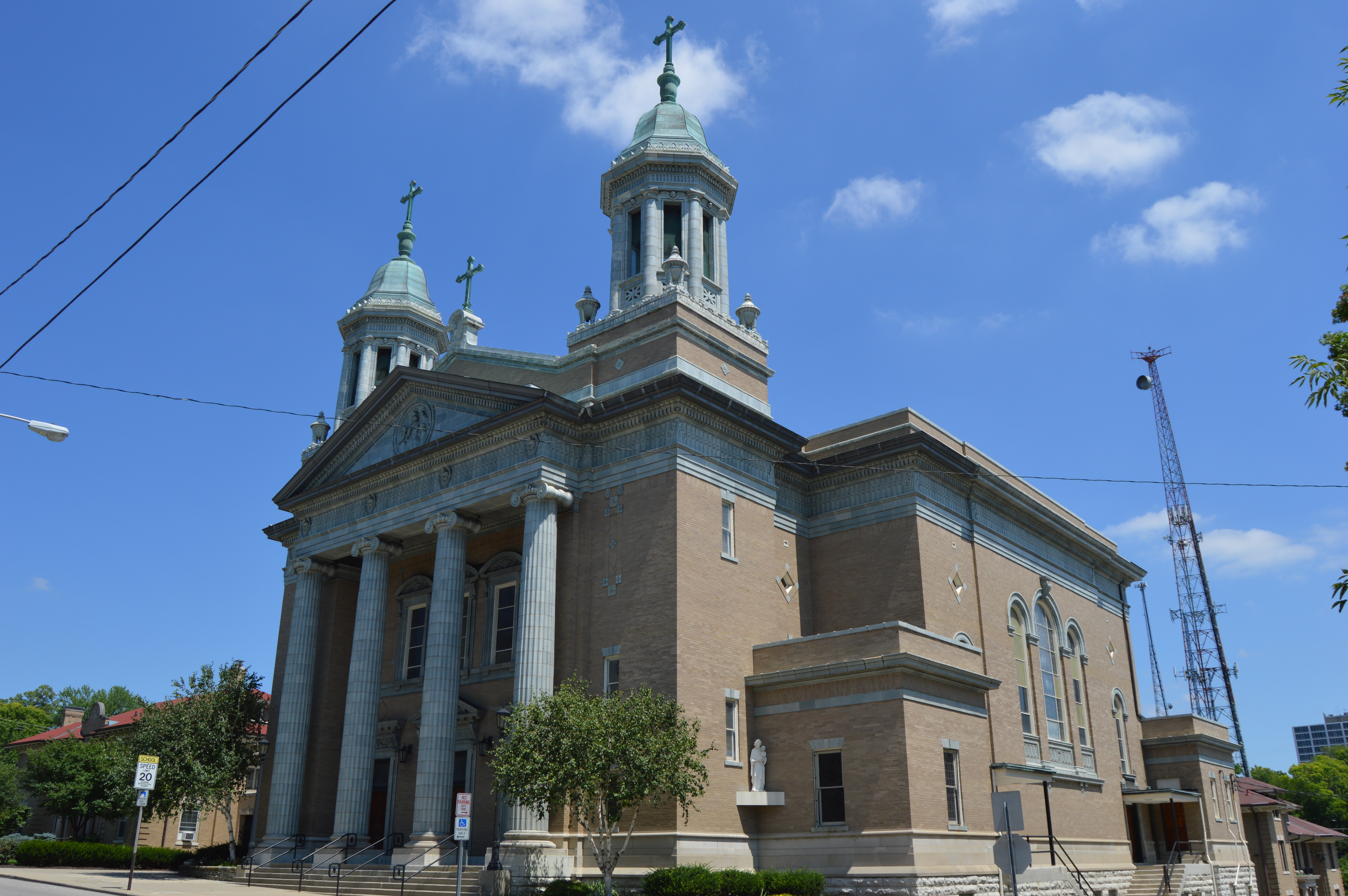 Front and southern side of Holy Family Catholic Church, located on the northeastern corner of the junction of Eighth Street and Hawthorne Avenue in Cincinnati, Ohio, United States. Constructed in 1916, it is the city's only Baroque Revival church.